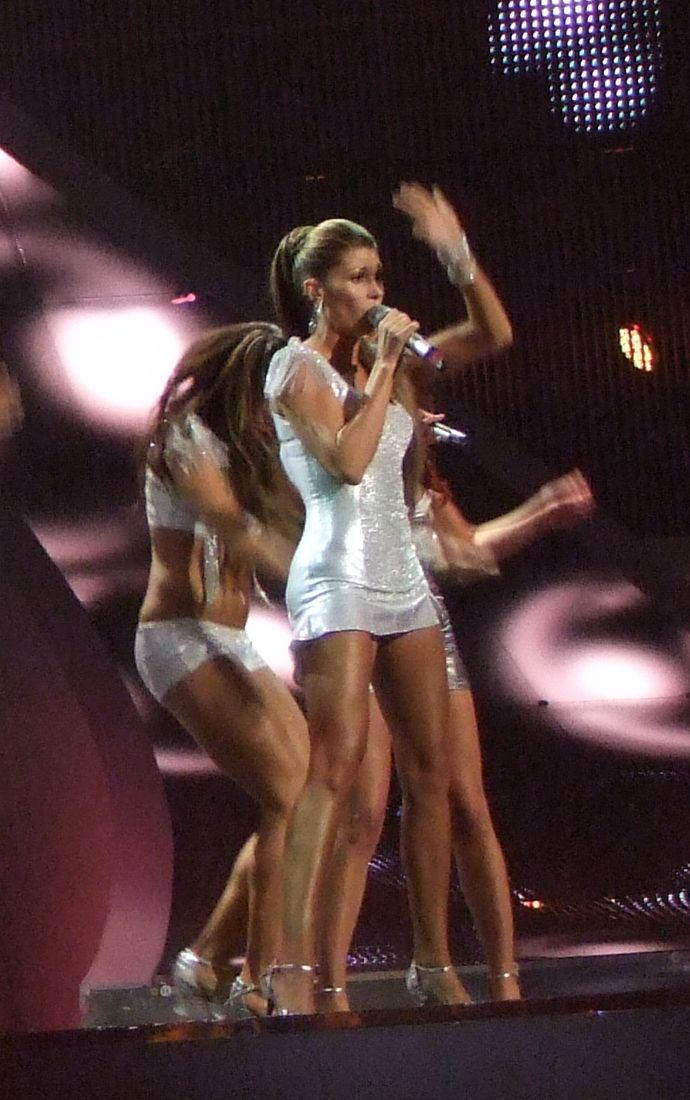 Tereza Kerndlová (Czech Republic) performing Have Some Fun at second semi-final, Eurovision Song Contest 2008 in Belgrade, Serbia, May 22, 2008.